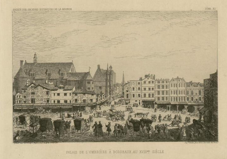 The Palais de l'Ombrière in the 16th century, from "Les Archives historiques de la Gironde", tome XII. Drawing by Guillaume-Auguste Bordes. Engraving by Léo Drouyn (1816-1896) (Bordeaux, France).